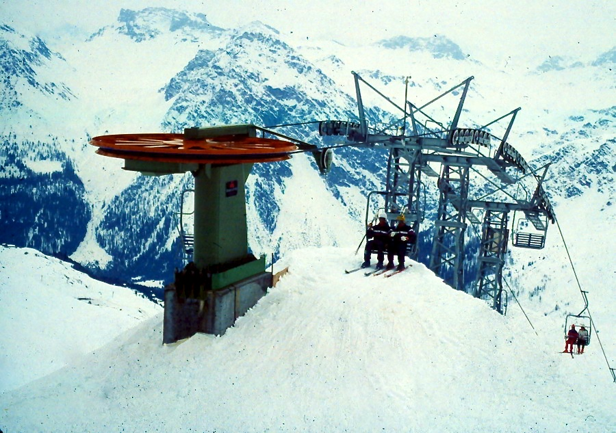 old chairlift Bänkli, Arosa/Swiss